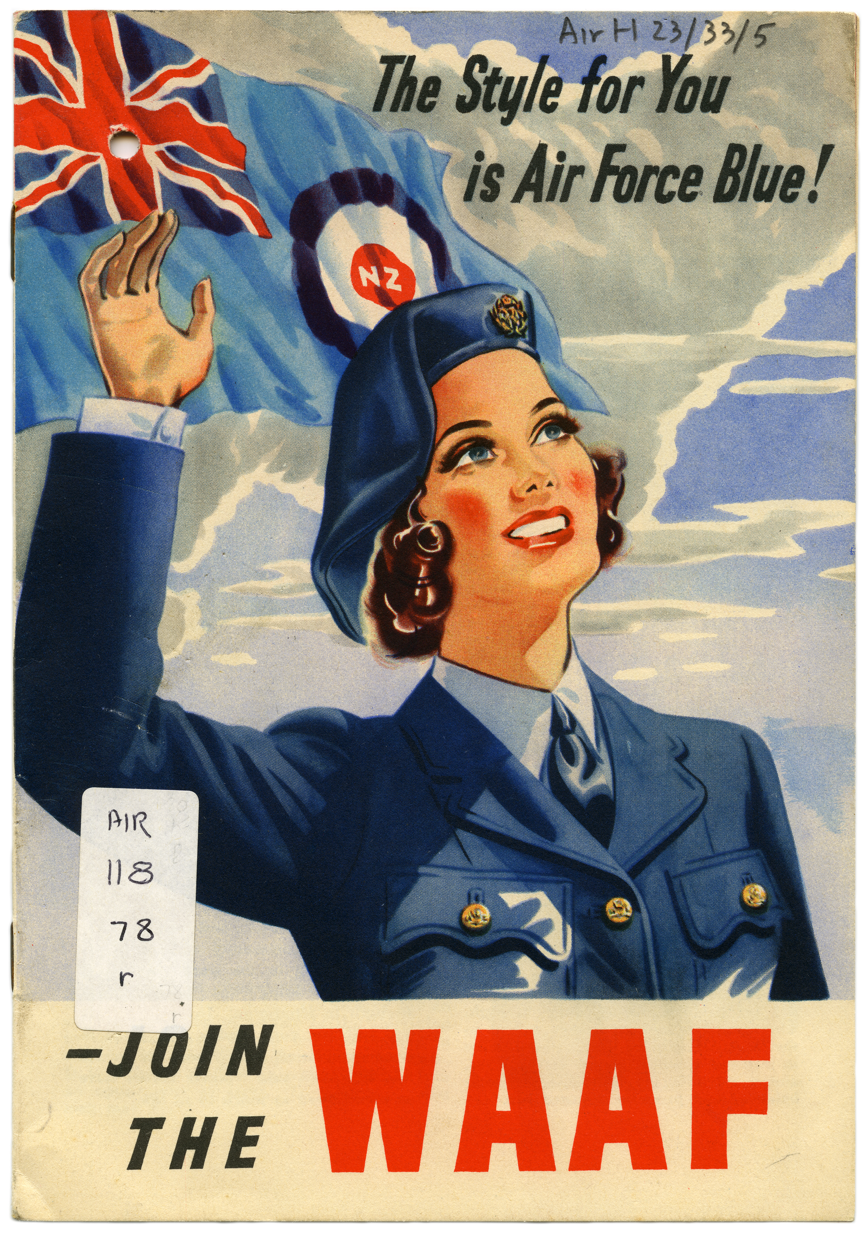 On 16 January 1941 the Women’s Auxiliary Air Force (WAAF) was formed in New Zealand. This wartime step was to enable the Royal New Zealand Air Force to release more men for service overseas, and paved the way for further women's involvement in the Second World War. As .nz notes, "within 18 months a Women’s Army Auxiliary Corps and a Women’s Royal Naval Service had also been created." "The WAAF made an important contribution to the war effort. Initially, women were employed as cooks, mess-hands, drivers, clerks, equipment assistants, medical orderlies and shorthand typists. By the end of the war they were to be found in many trades," as well as in service overseas. In total, around 4750 women passed through its ranks. 'The Style for You is Air Force Blue!' was a recruitment booklet produced for the WAAF. Describing potential recruits as 'partners in victory', the booklet used extensive photography to highlight the role of women in wartime. WAAF files (including lists of those who served) and two large photographic albums of the WAAF, are also held at Archives New Zealand. Archives Reference: AIR118 Box 114/ 78r For updates on our On This Day series and news from Archives New Zealand, follow us on Twitter Material from Archives New Zealand